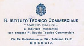 Regio I.T.C. Marino Ballini